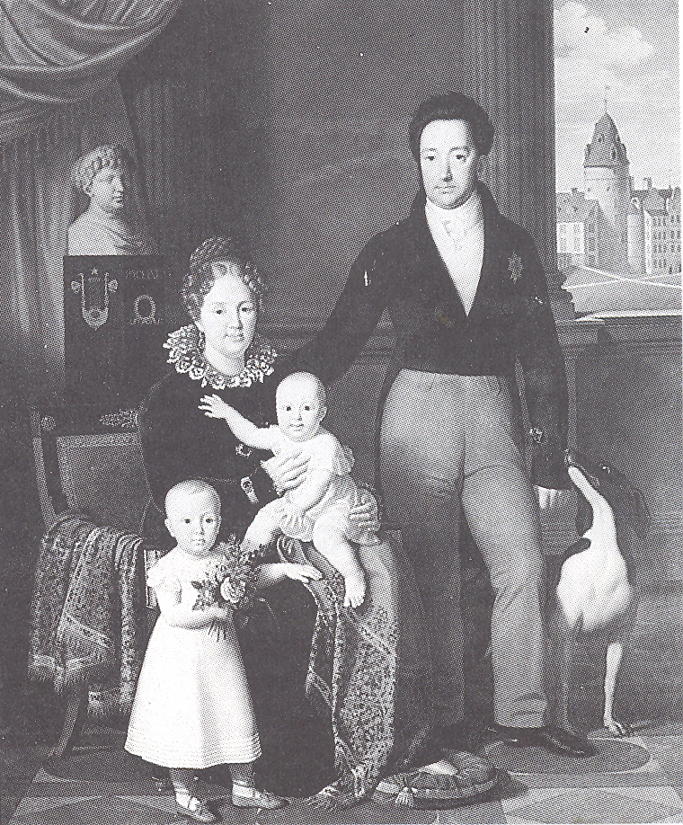 Leopold II, Prince of Lippe with his wife Princess Emilie of Schwarzburg-Sondershausen and their children